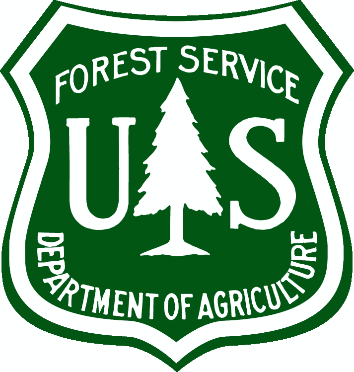 Logo of the United States Forest Service